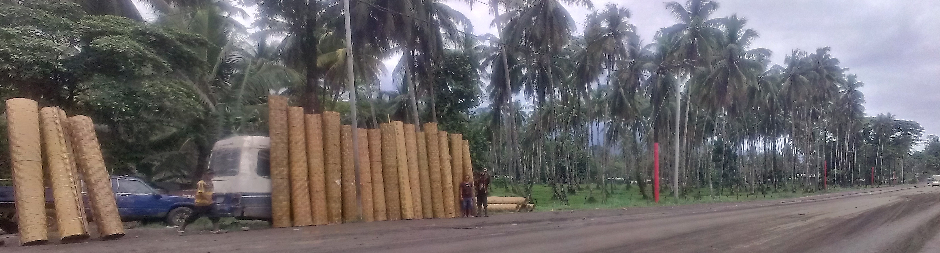 Panoramic photo of a roadside stall selling pre fabricated building walls at 6 Mile, on Nadzab Road, Lae Papua New Guinea